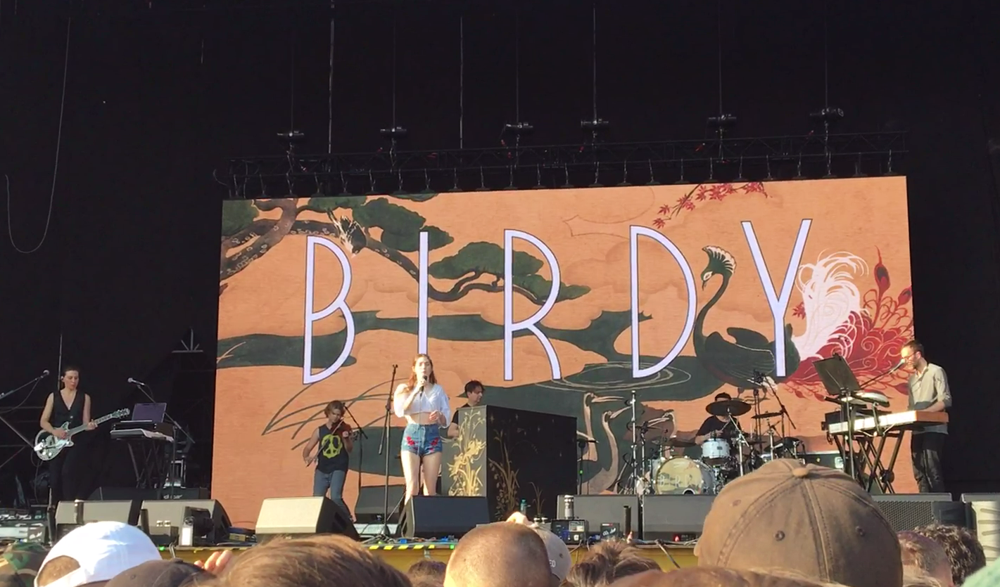 Birdy at Kraków Live Fetival 18 August 2017